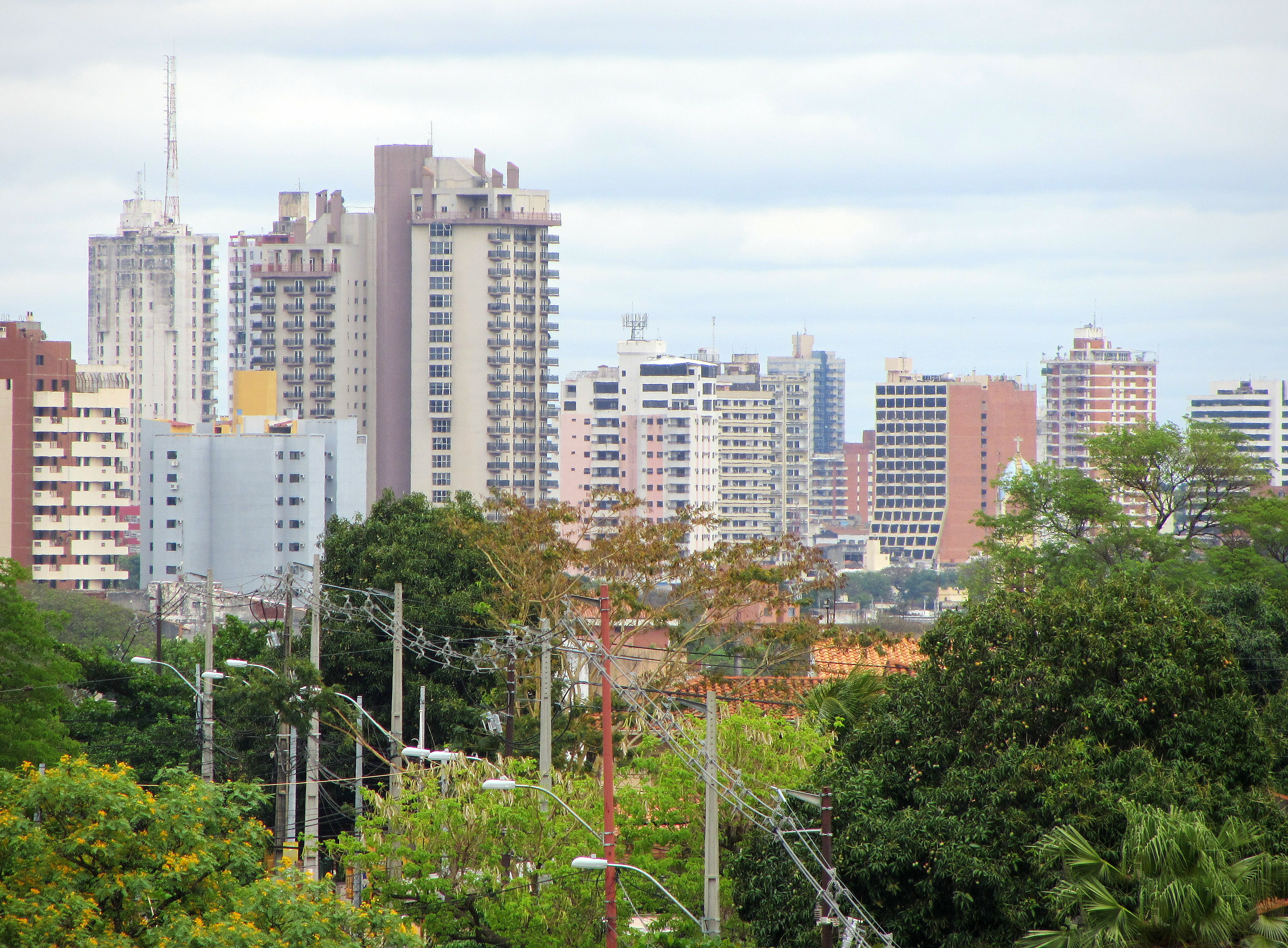 The capital city and largest city of Paraguay. The city has more than 1.2 million inhabitants, and the metropolitan area has more than 1.8 million inhabitants.